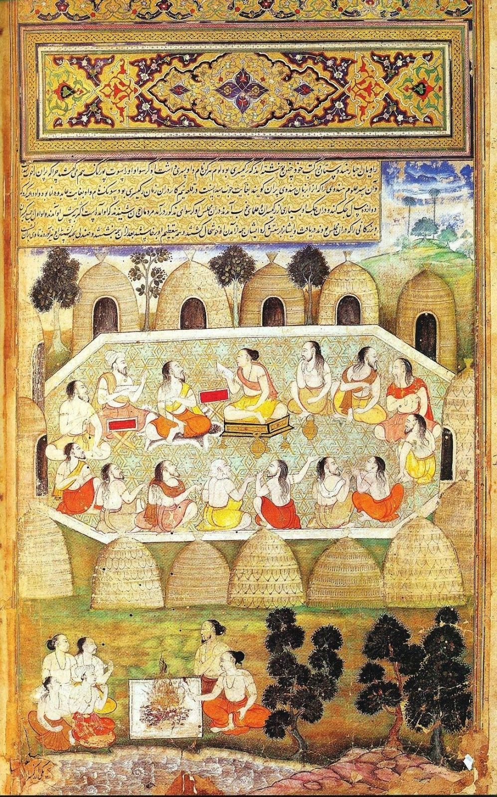 In this miniature artist has narrated the opening episode of the epic, in which the Mahabharata was first recited by rishi Vaisampayana and Maharishi Saunaka at the occasion of Sarpa Yajna or snake sacrifice for king Janamajeya in the Naimesha forest. Artist has also written the test in four lines at the upper space of the painting. The whole painting had divided in three parts. At upper space floral design was made in a box, after that artist has written the text related to the episode. In the middle space of the painting artist has narrated the recitation of the epic Mahabharata among the sages. In an octagonal space fifteen sages has shown discussing the epic. Two sages are reciting the text, one of them Sauti is sitting on a decorated throne and other one is wearing turban. Saumaka is sitting on the deer skin by his side. This octagonal space has surrounded by fifteen thatched huts that must be the living space of the sages. In the foreground, five brahmanas and a noble man wearing a turban are performing a Yajna in a sacrifice pit, on the bank of river.